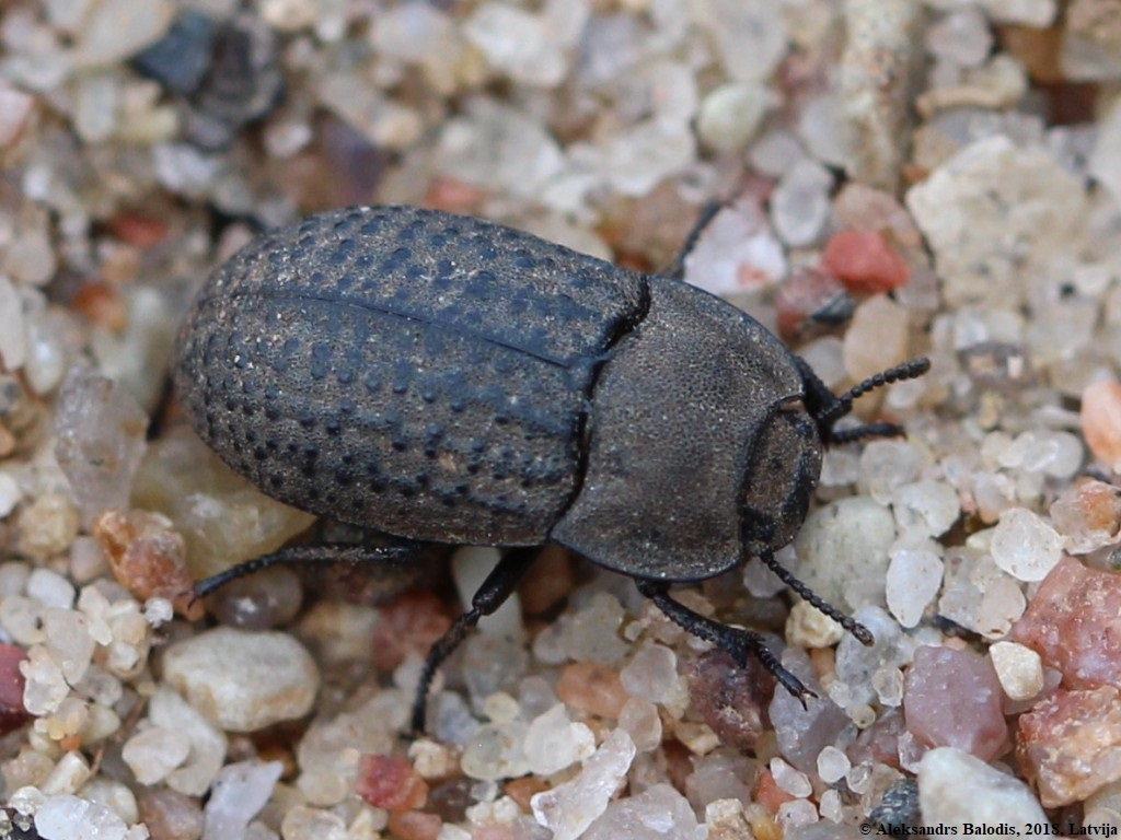 Opatrum sabulosum